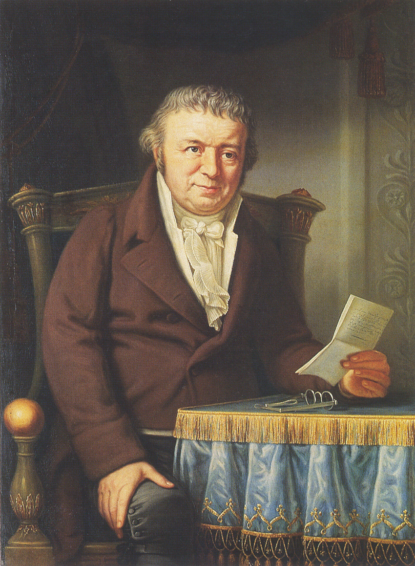 Portrait of senator Johann Vollmers (1753–1818) from Bremen, Germany